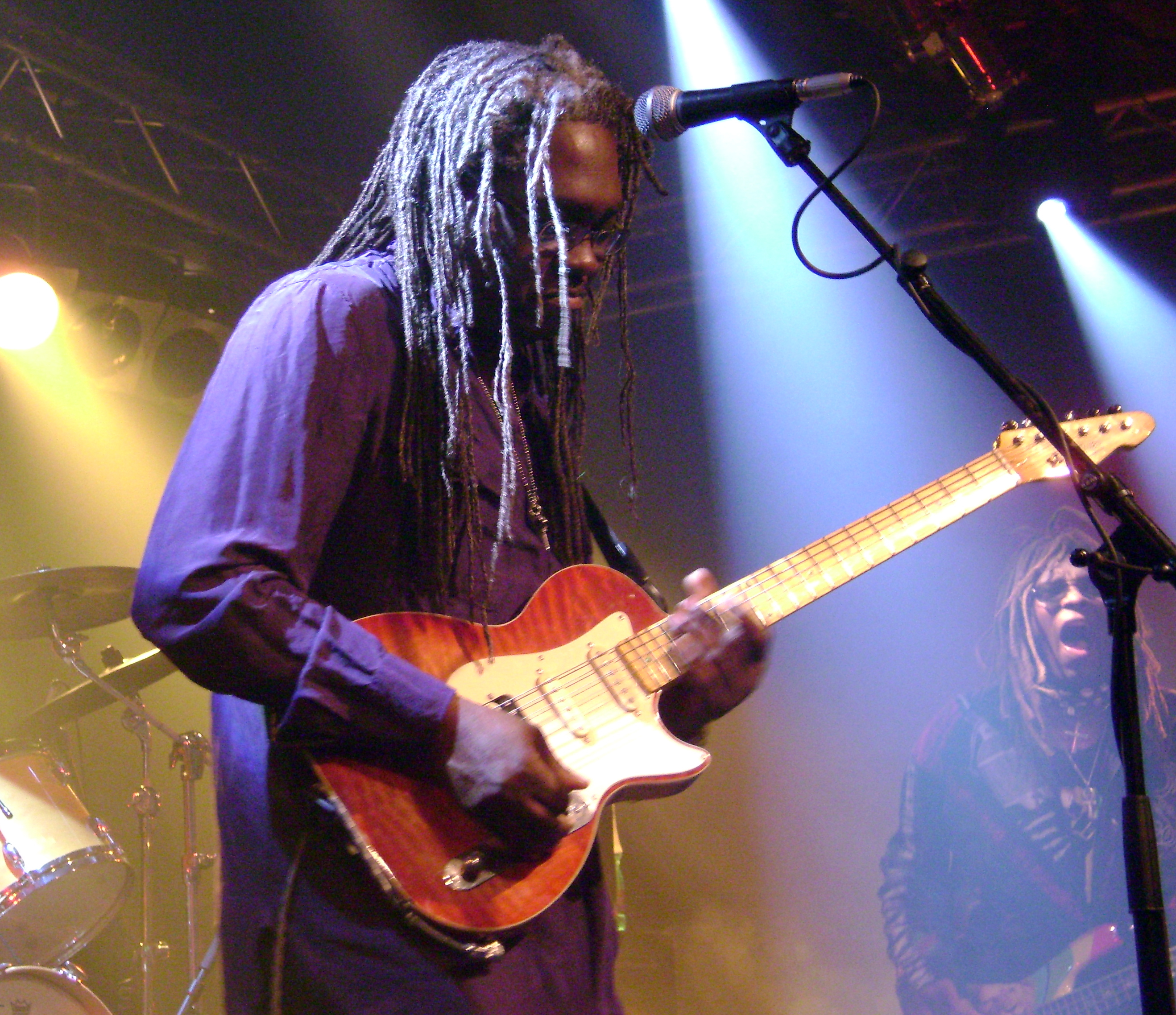 DeWayne "Blackbyrd" McKnight at a concert with Socialibrium in Innsbruck. right: T. M. Stevens